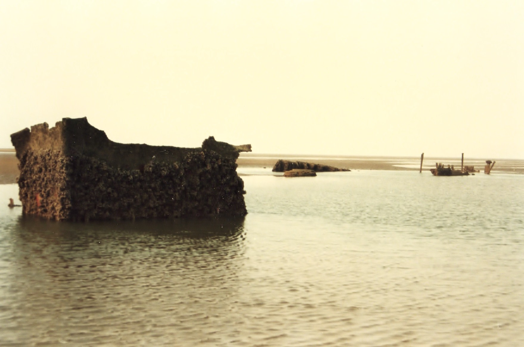 Shipwreck of SS Chrysopolis (1918) at low water 1.5 miles off Southport 1998